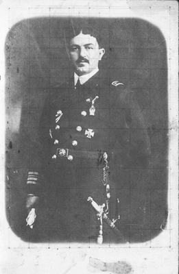 Hüseyin Rauf Orbay, Turkish naval officer and diplomat. (27 July 1881 – 16 July 1964), image dates from his early career in the navy. (1910s)